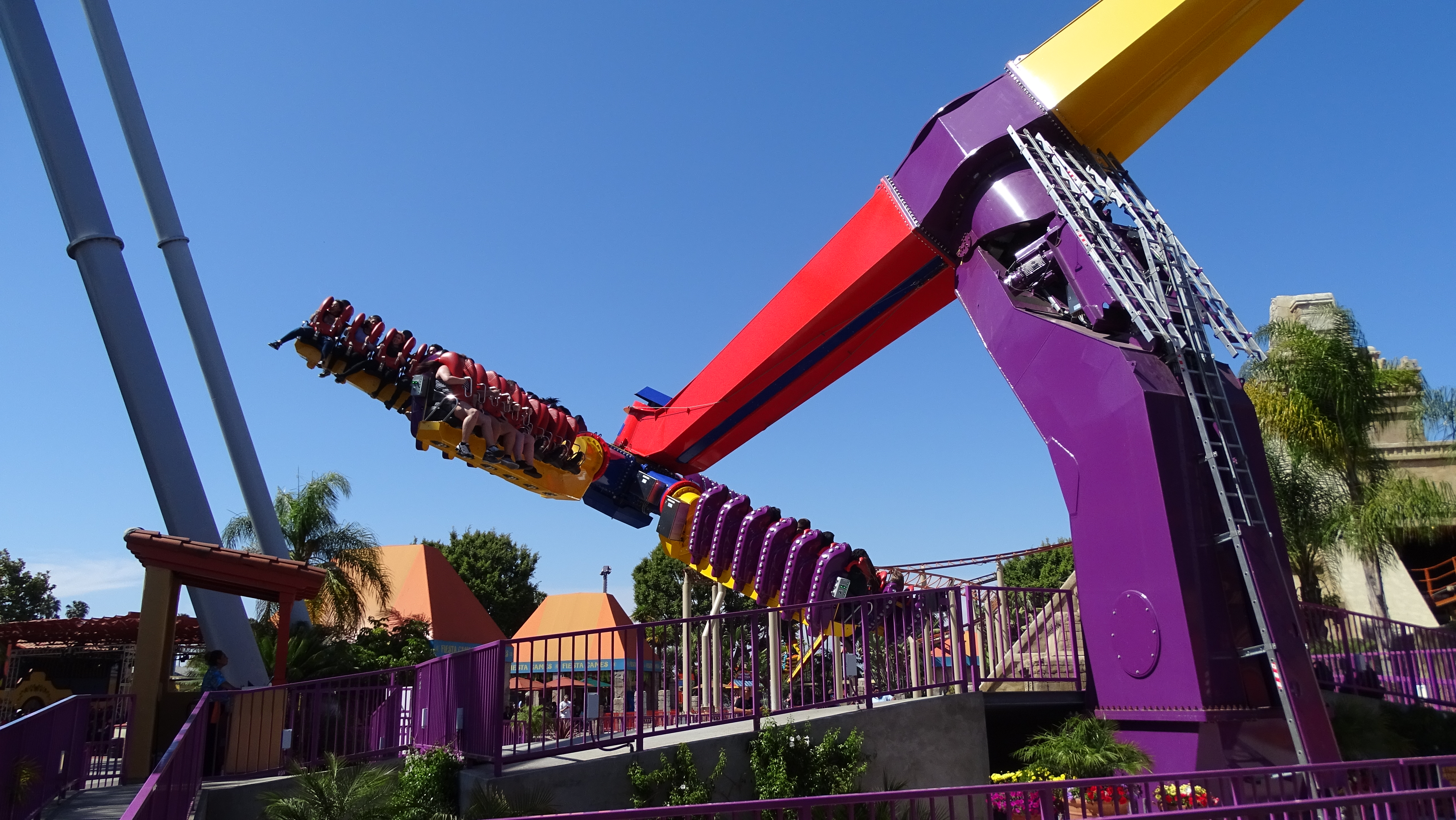 Sol Spin